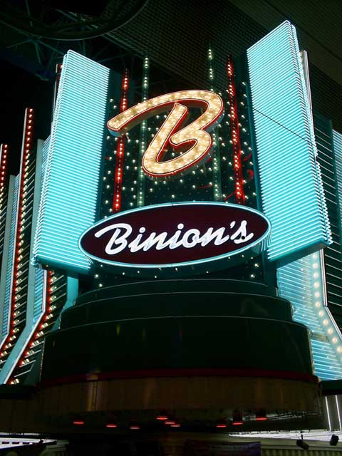 Adjusted size and quality please send me a message if you would like the original.